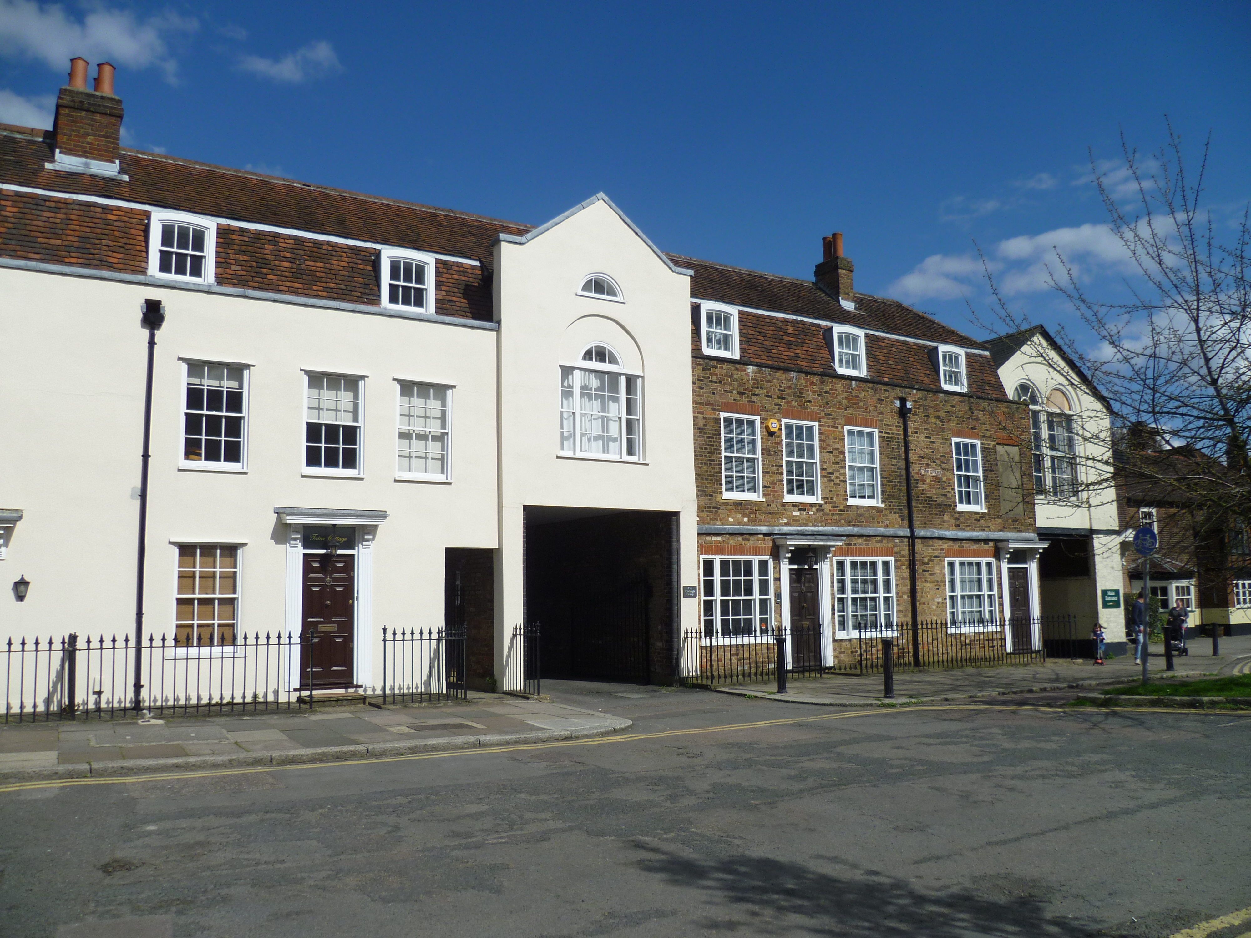 Southgate